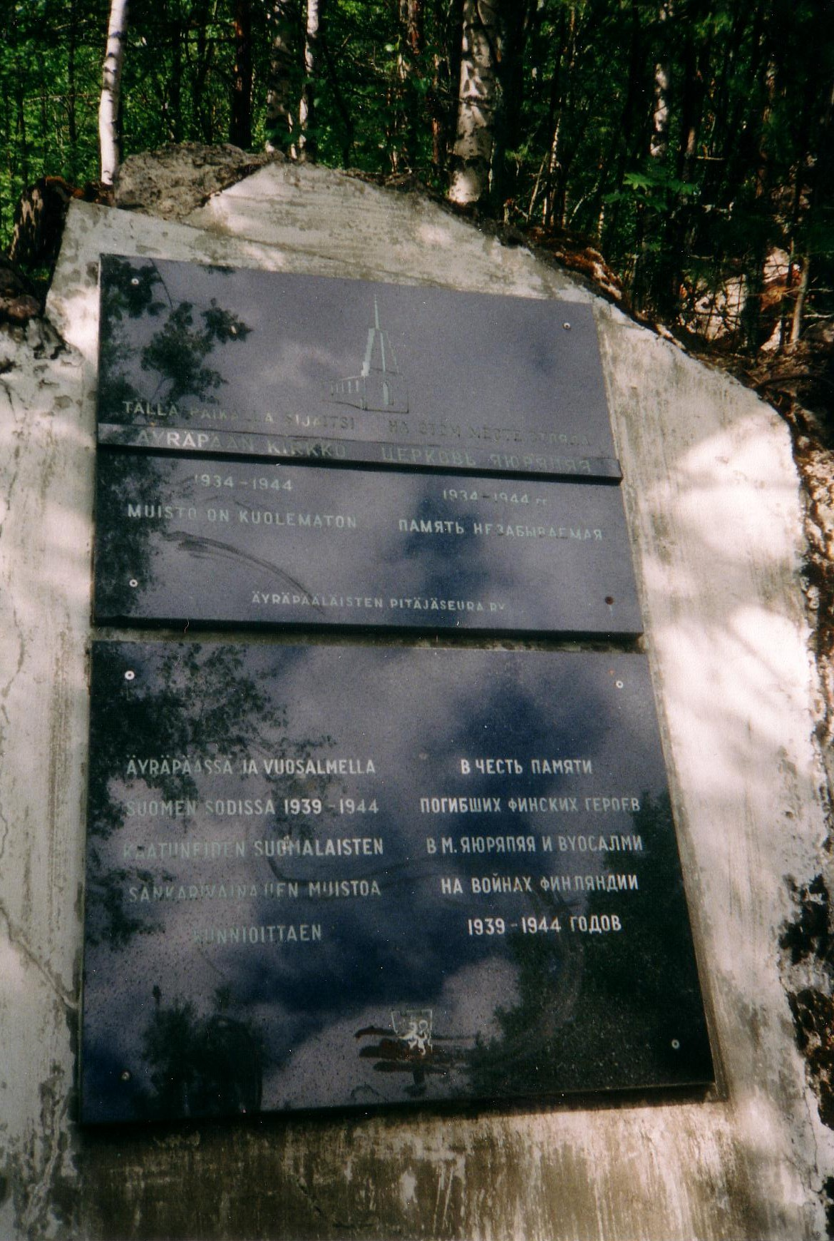 The monument of the Äyräpää Lutheran Church in the Finnish Karelia ceded to the Soviet Union in 1944.